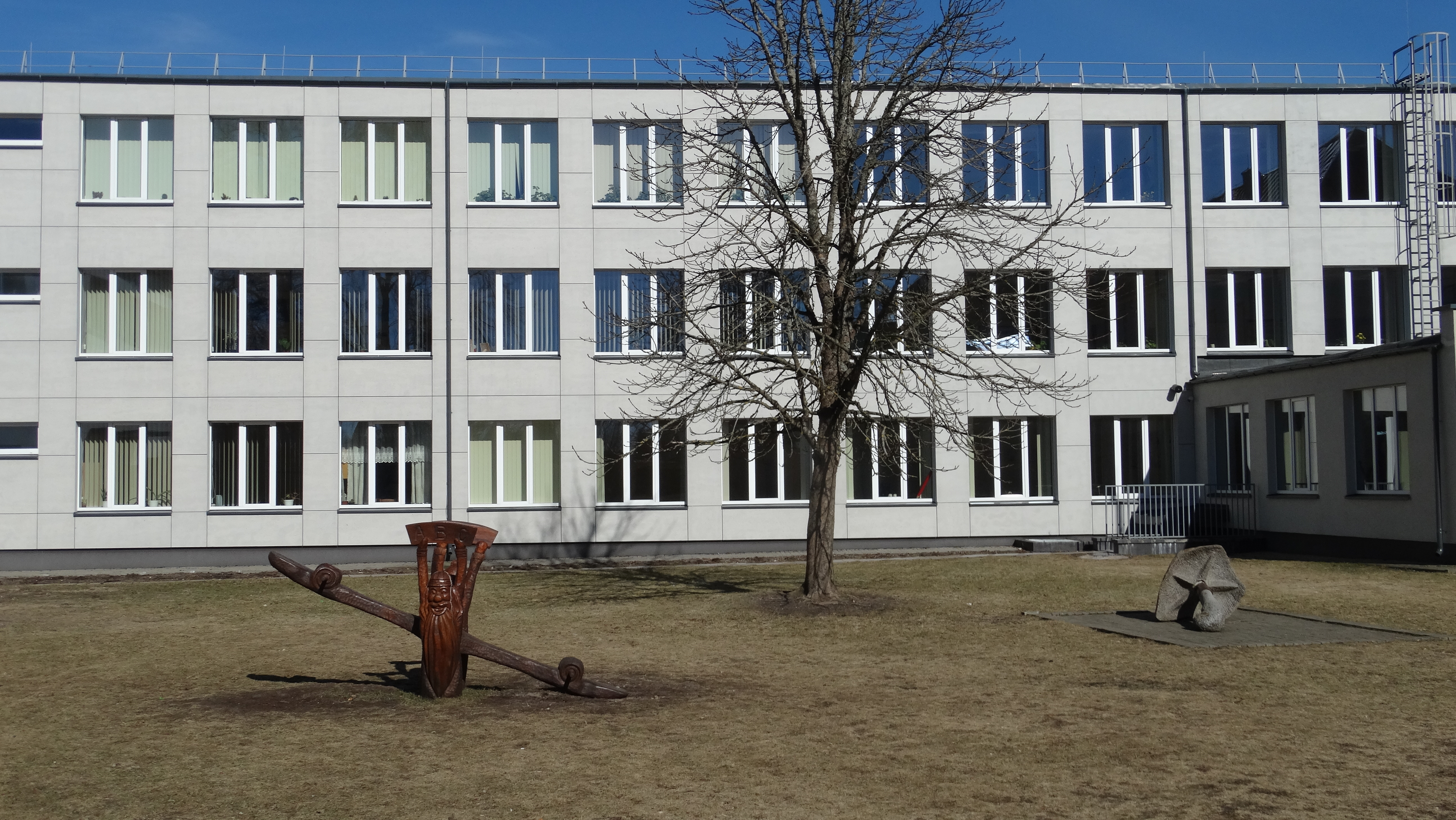 Gymnasium named after Stanisław Narutowicz, Alsėdžiai, Plungė District, Lithuania